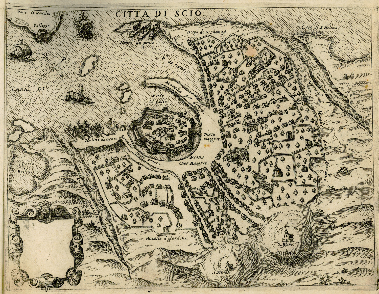 Giovanni Francesco Camocio. Isole famose porti, fortezze, e terre maritime sottoposte alla Ser.ma Sig.ria di Venetia, ad altri Principi Christiani, et al Sig.or Turco, Venice, alla libraria del segno di S.Marco (1574)